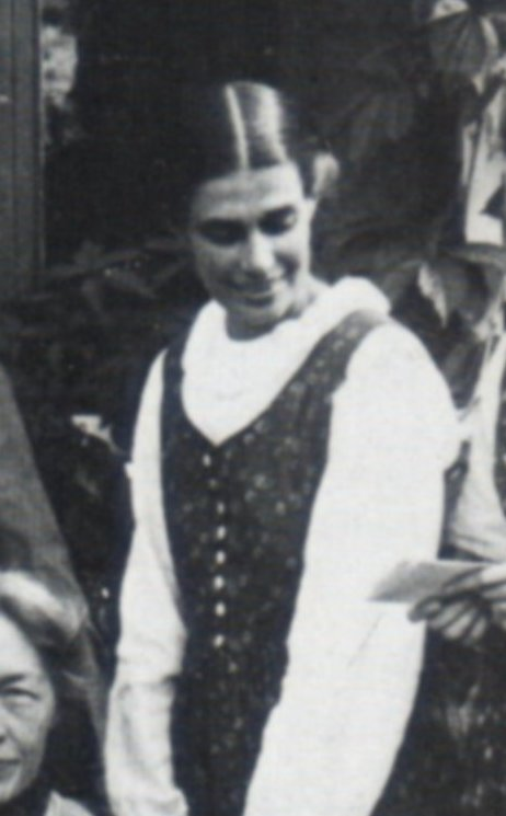 The Fogelstad group was a group of women who worked for women's rights. In 1923 they started a weekly newspaper that was published until 1936. Honorine Hermelin